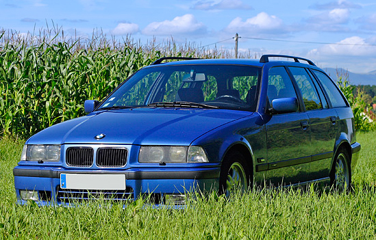 E36 328i Touring